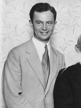 Factual corrections and alternative descriptions are encouraged separately from the original description. Additionally errors can be reported at this page to inform the Bundesarchiv. Original historic description: Tokio, Marga von Etzdorf, Ordensverleihung GERMAN AVIATRIX COMPLETES BERLIN-TOKYO FLIGTH. Fraulein Marga von Etzdorff, German aviatrix who recently completed a fligth from Berlin to Tokyo, Japan, is seen as she was awarded the Red Insignia of Merit in the Aviation Hall in Tokyo, by the Imperial Aeronautic Society of Japan. Left to Right: Herr Etzdorff of the German ambassy in Japan, uncle of the aviatrix; Lt. General Gaishi Nagaoka, patron of the Japanese civil aviation, Miss Etzdorff; the German Charge d'affairs in Tokyo; and Mr. Keizaburo Hasimoto. Credit line (ACME) 9/19/31 [Japan, Tokio.- Marga von Etzdorf bei der Verleihung eines Ordens. vlnr.: Hasso von Etzdorf (Onkel von Marga von Etzdorf), General Gaishi Nagaoka, Marga von Etzdorf, der Deutsche Geschäftsträger in Tokio, Keizaburo Hasimoto [Porträtausschnitt Marga v. E] Abgebildete Personen: * Etzdorf, Marga von: 1907-1933; Kunstfliegerin, Deutschland (GND 12355800X) * Etzdorf, Hasso von Dr.: 1900-1989; Diplomat, Bundesrepublik Deutschland (GND 119178311) * Nagaoka, Gaishi: 1856-1933; General, Japan